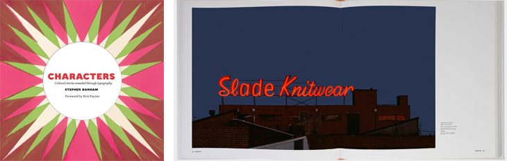 Characters – Cultural Stories revealed through typography, Thames and Hudson (2011)